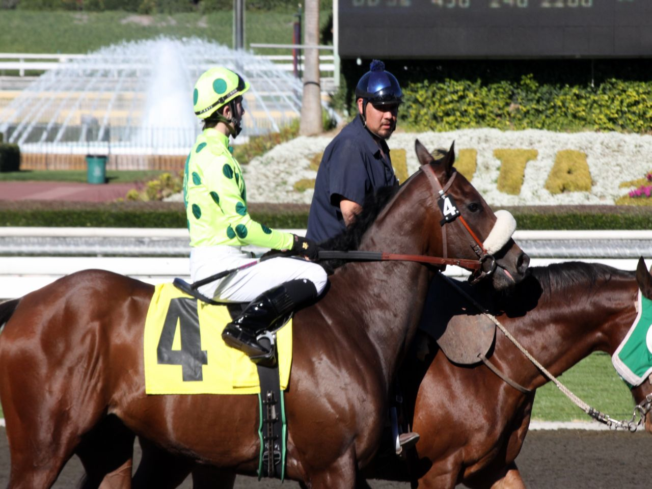 Big Bad Al 3rd race with Michael Baze aboard in 2009